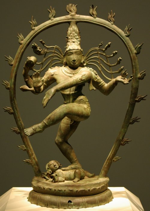 Shiva Nataraja, the Lord of the Dance. Tamil Nadu, ca. 990, bronze. Freer Gallery, Washington DC